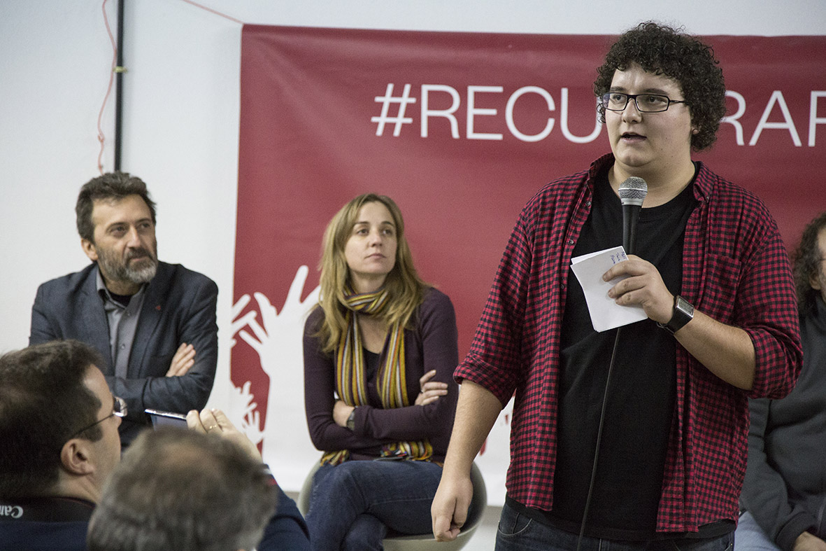 Mauricio Valiente, Tania Sánchez y Facu Díaz en un acto público de IU en Vallecas en enero de 2015